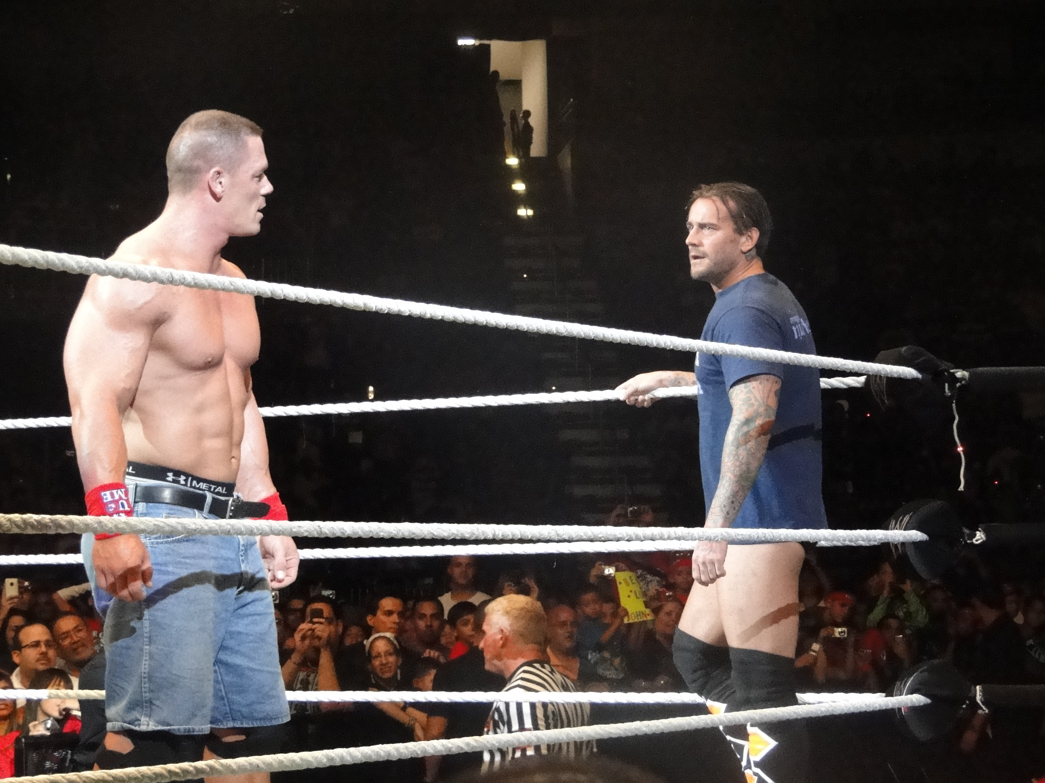 John Cena and CM Punk stare down symbolizing their epic 2011 rivalry.